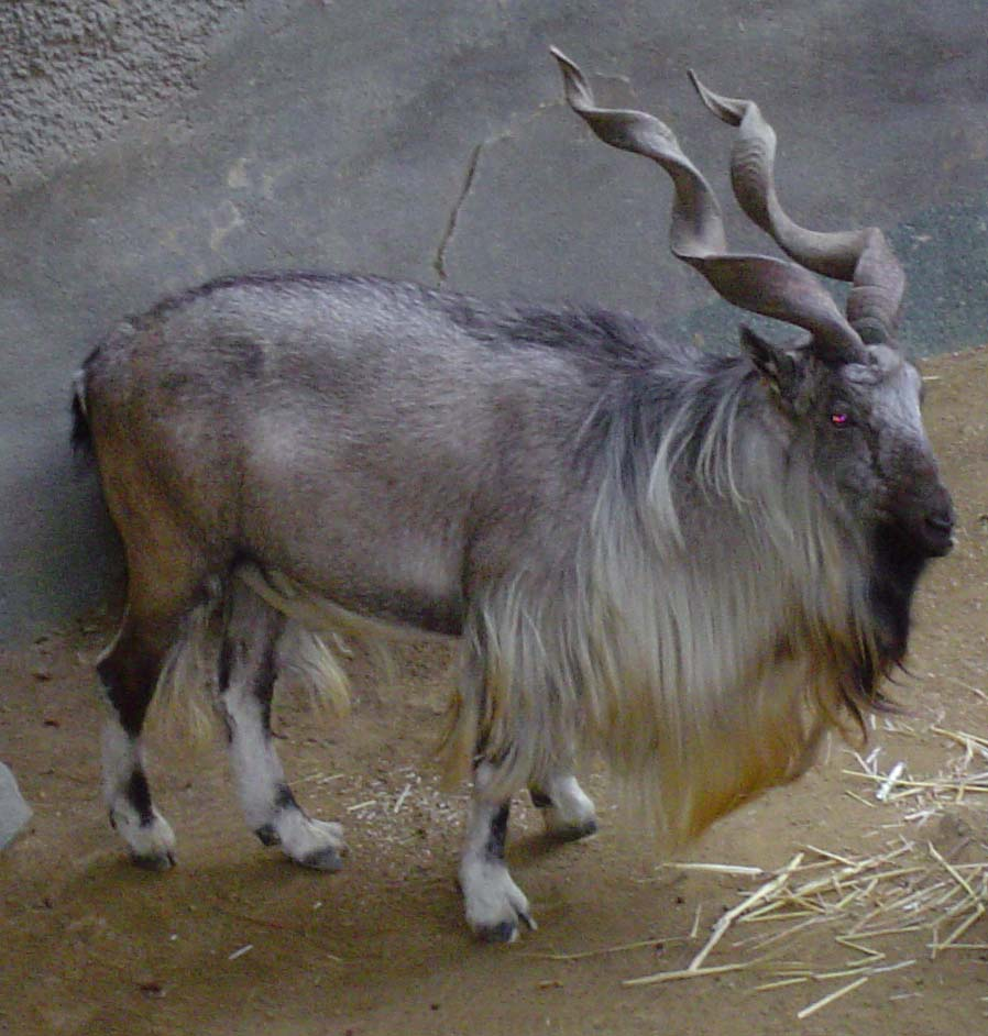 Tadjik Markhor Capra falcornei hepteneri in captivity at Los Angeles Zoo.